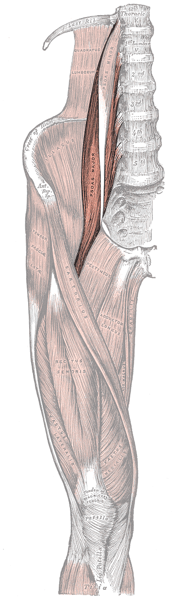 This is a derivative work of a lithograph plate from Gray's Anatomy where M. psoas major is highlighted.